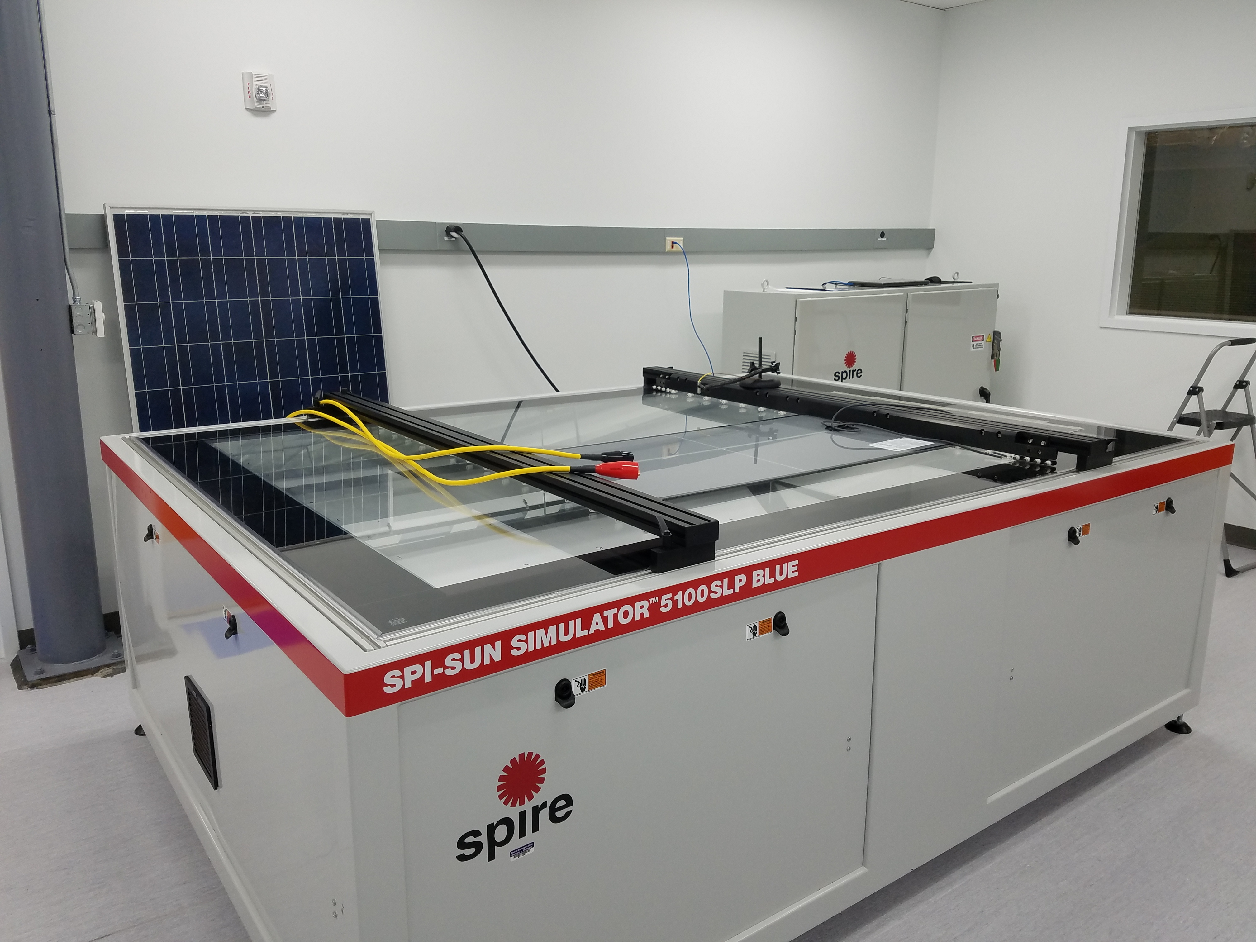 An SPI-Sun 5100SLP class AAA flashed solar simulator from Spire Solar. Taken at the Washington Clean Energy Testbeds laboratory at the University of Washington in Seattle, USA.